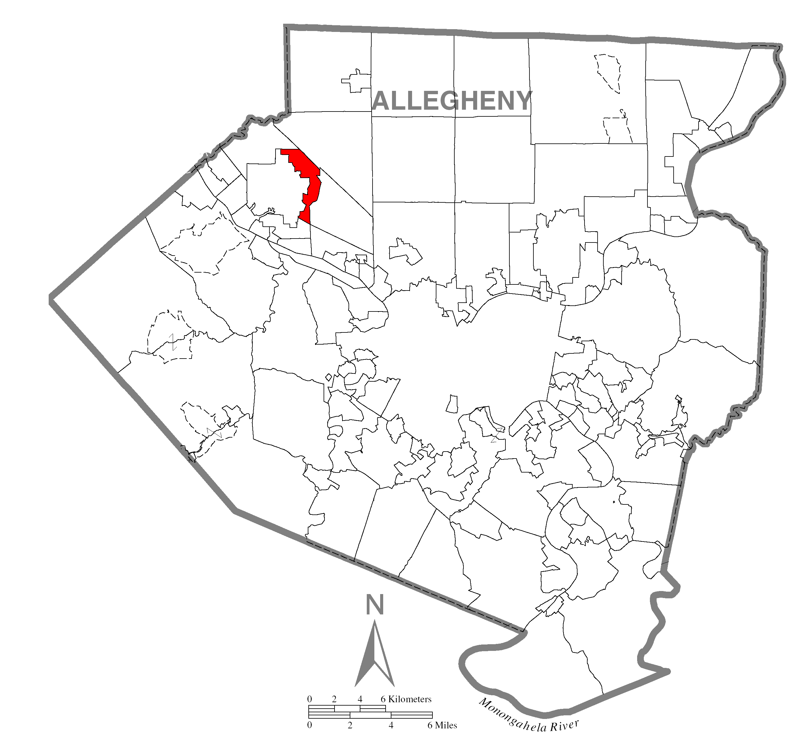 A map of Allegheny County showing Sewickley Hills, Pennsylvania (alternate) highlighted on the map.